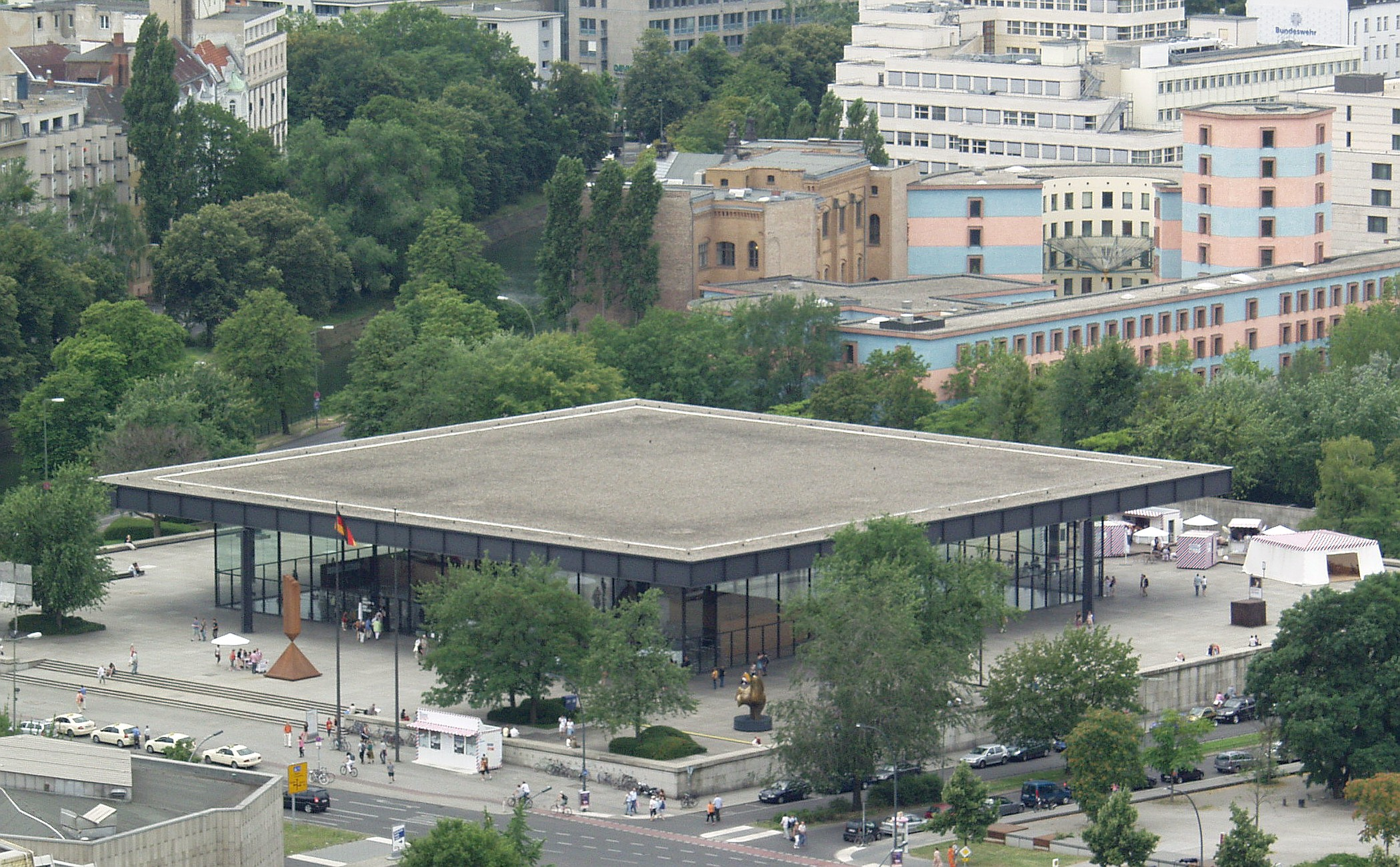 Neue Nationalgalerie Native nameNeue NationalgalerieParent institutionBerlin State Museums LocationBerlinCoordinates52° 30′ 25.17″ N, 13° 22′ 02.71″ E Established1968 Web page control : Q32659772 VIAF: 142711389 ISNI: 0000 0001 1945 5804 LCCN: n92076661 GND: 5298136-8 WorldCat institution QS:P195,Q32659772